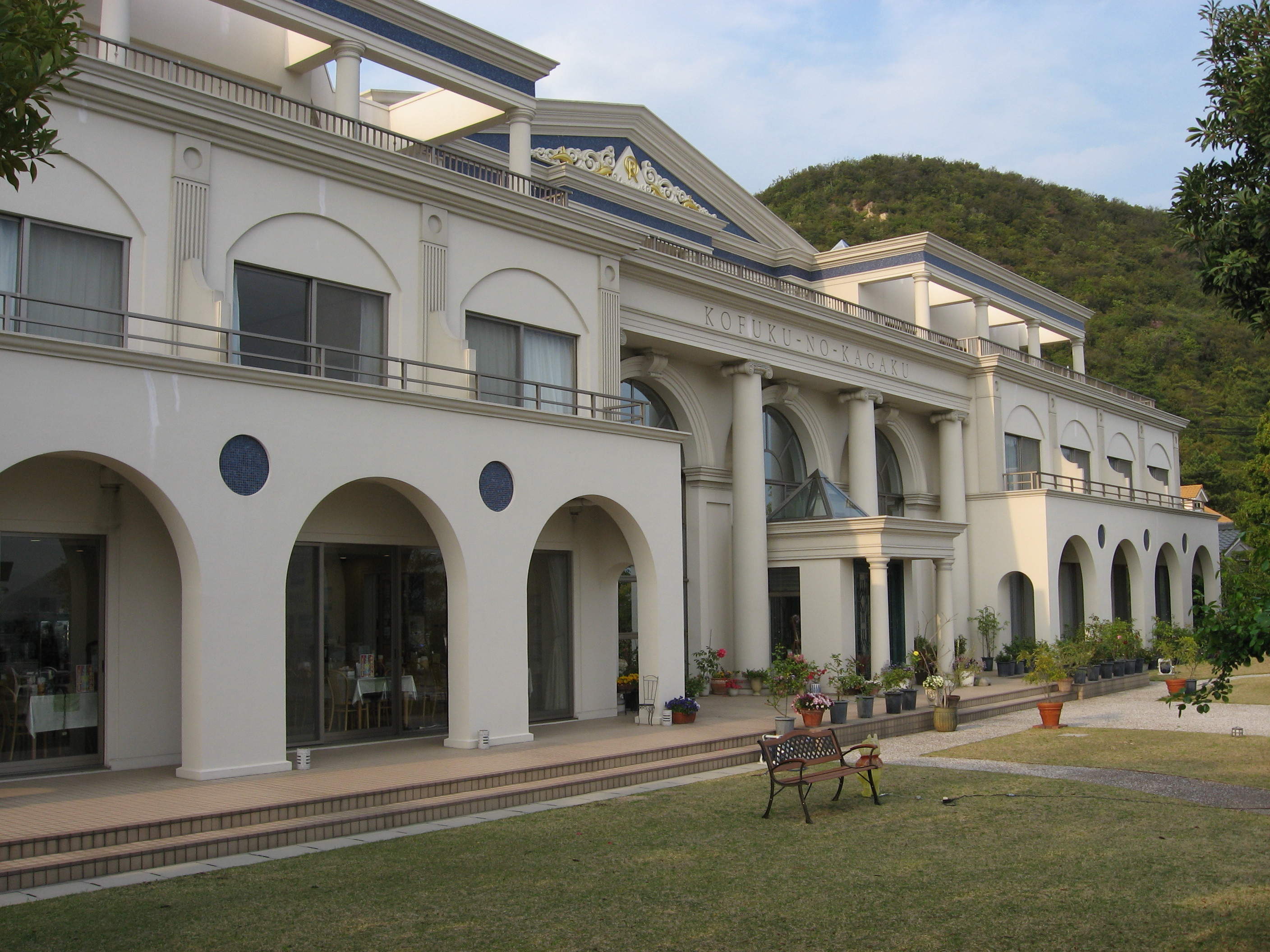 Chugoku Shoshinkan, a monastery of Happy Science